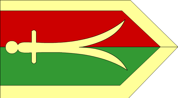 Military flag of Janissaries of the Ottoman Empire.